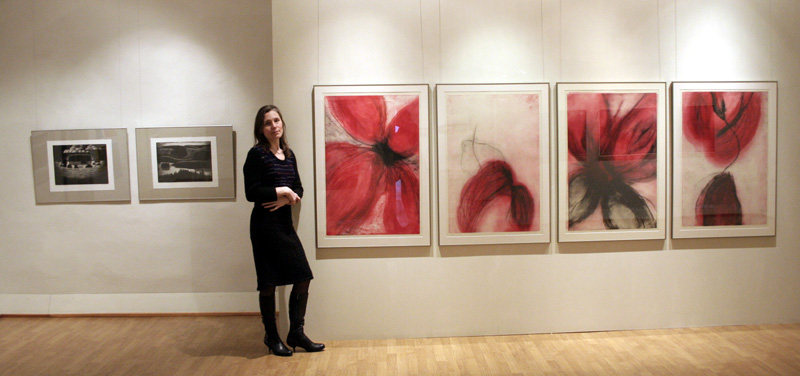 Artist Virge Jõekalda at Estonian graphic art exhibition in Riga.